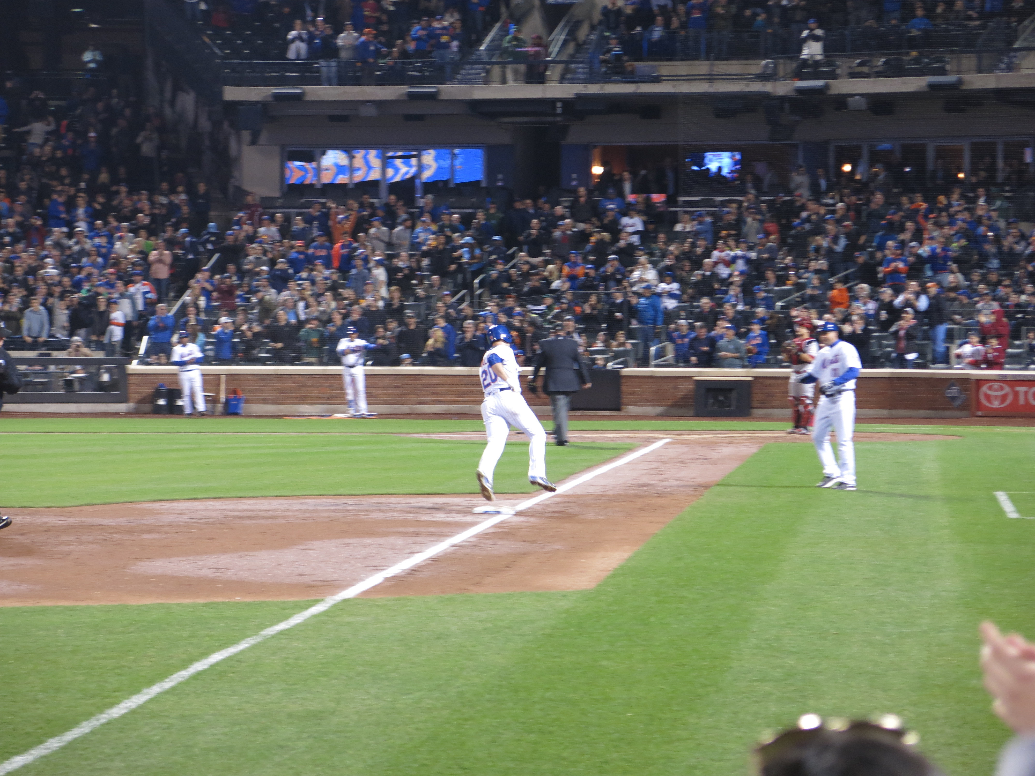 Neil Walker hits his 9th home run of April with the New York Mets, April 27, 2016.